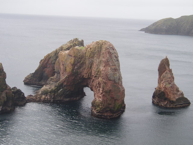 Gaada Stacks from the island of Vaila